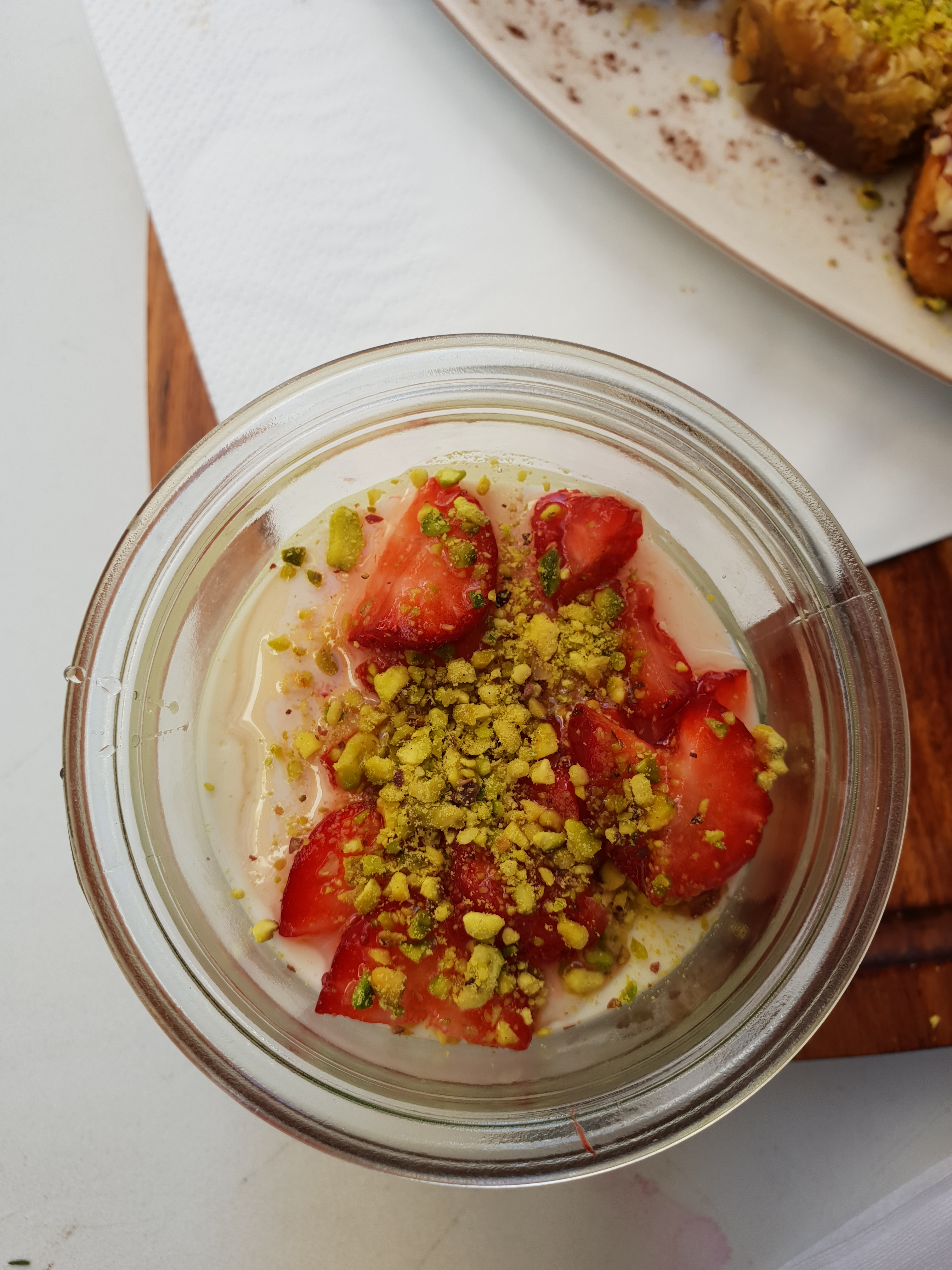 Israeli malabi dessert